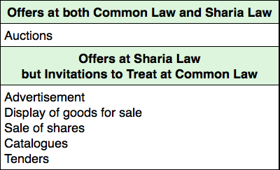 Table contrasting offers at sharia law and invitations to treat at common law